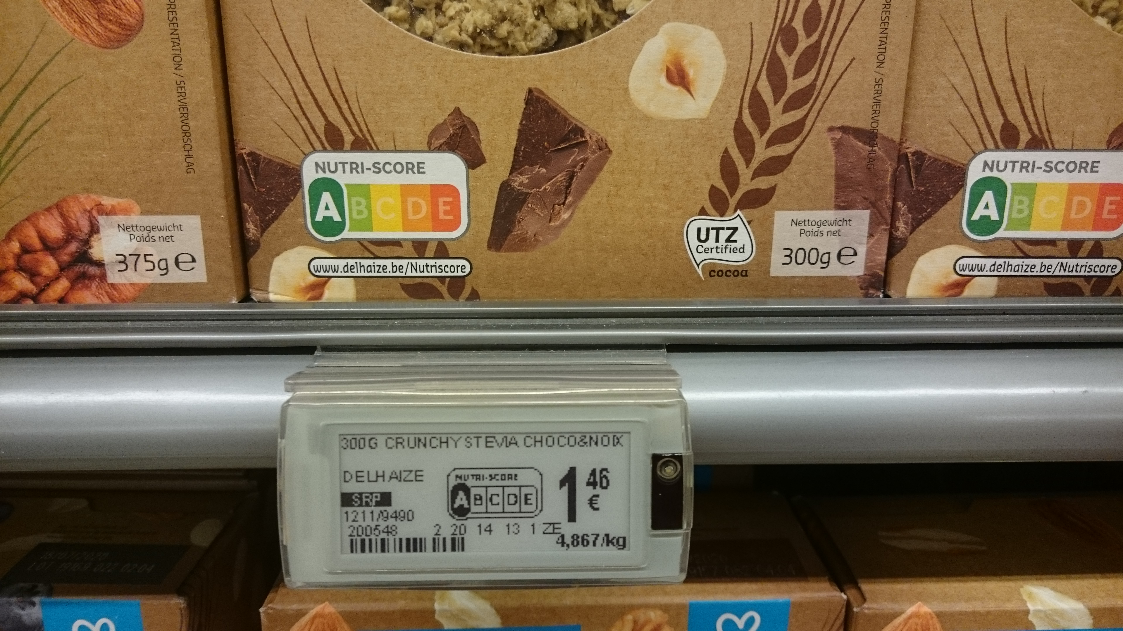 Delhaize crunchy muesli price and Nutri-Score on both the product and the electronic price tag